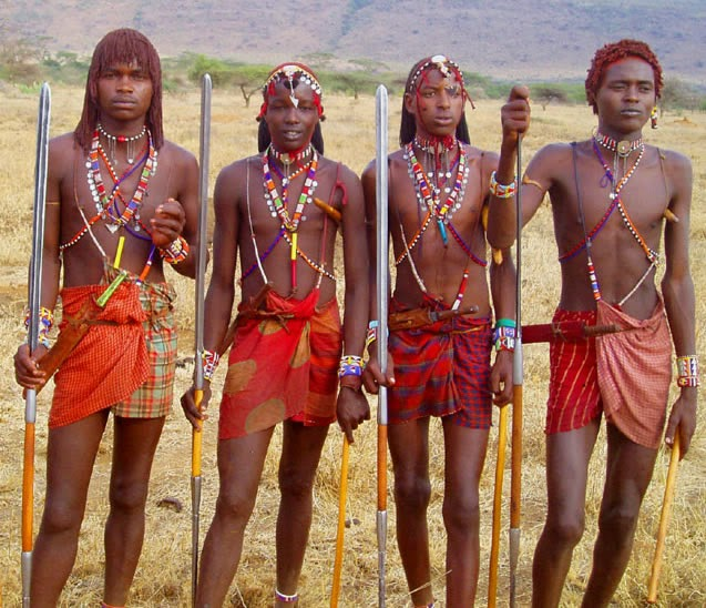 Getting ready to look for rabbits, antelopes and squirels, this outfit makes them feel at ease and also flexible because of the simplicity it got This is an image of Cultural Fashion or Adornment from Kenya